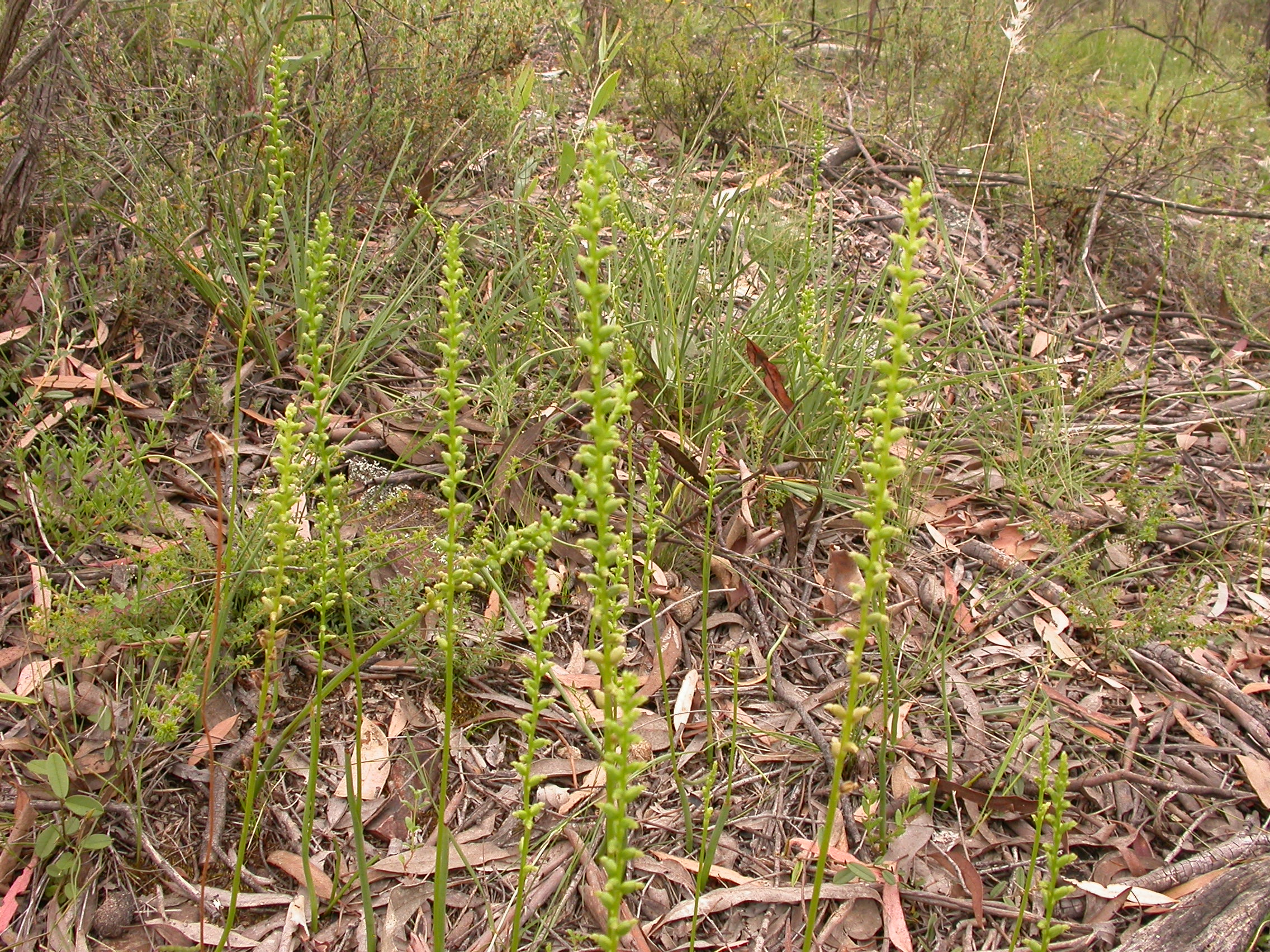 Microtis parviflora R.Br., Black Mountain, Canberra, ACT, 24 December 2010